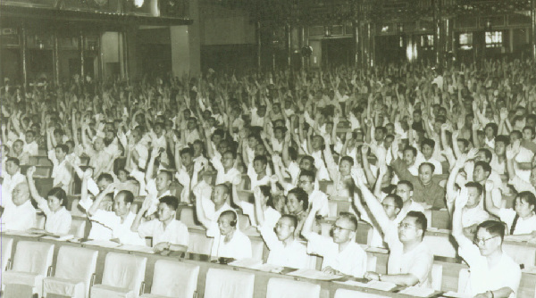 Members were voting in the 2nd meeting of the 1st National People's Congress. 中文（中国大陆）: 出席第一届全国人民代表大会第二次会议的代表举手表决。